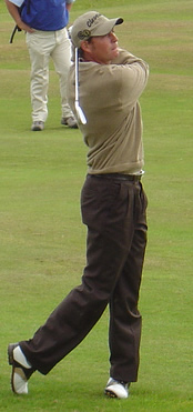 David Howell during a practice round before the 2004 Open Championship.